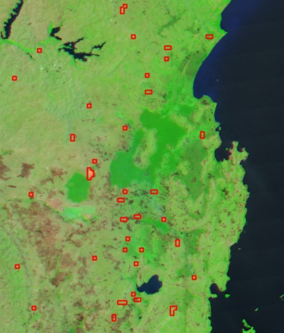 In the vicinity of Minziro forest in east-central Africa, numerous fires (marked in red), probably agricultural in purpose, were burning when the Moderate Resolution Imaging Spectroradiometer (MODIS) on NASA’s Aqua satellite captured this image on July 5, 2004. Minziro is at the center of the image, but several other protected forests are situated in the area shown. They include Namalala Forest, Tero Forest, Kigona Forest, Kikuru Forest Reserve, Ruchwezi Forest Reserve, Munene Forest Reserve, Ruasina Forest Reserve, Kiamawa Forest Reserve, Kantale Forest Reserve, Kikongoro Forest Reserve, Kankuma Forest Reserve, Kiau Forest Reserve, Rubare Forest Reserve, Malabigambo Forest, Kaiso Forest and Lugengera Forest(?). Towards the south Lake Ikimba can be seen.